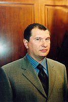 Igor' Ivanovich Sechin